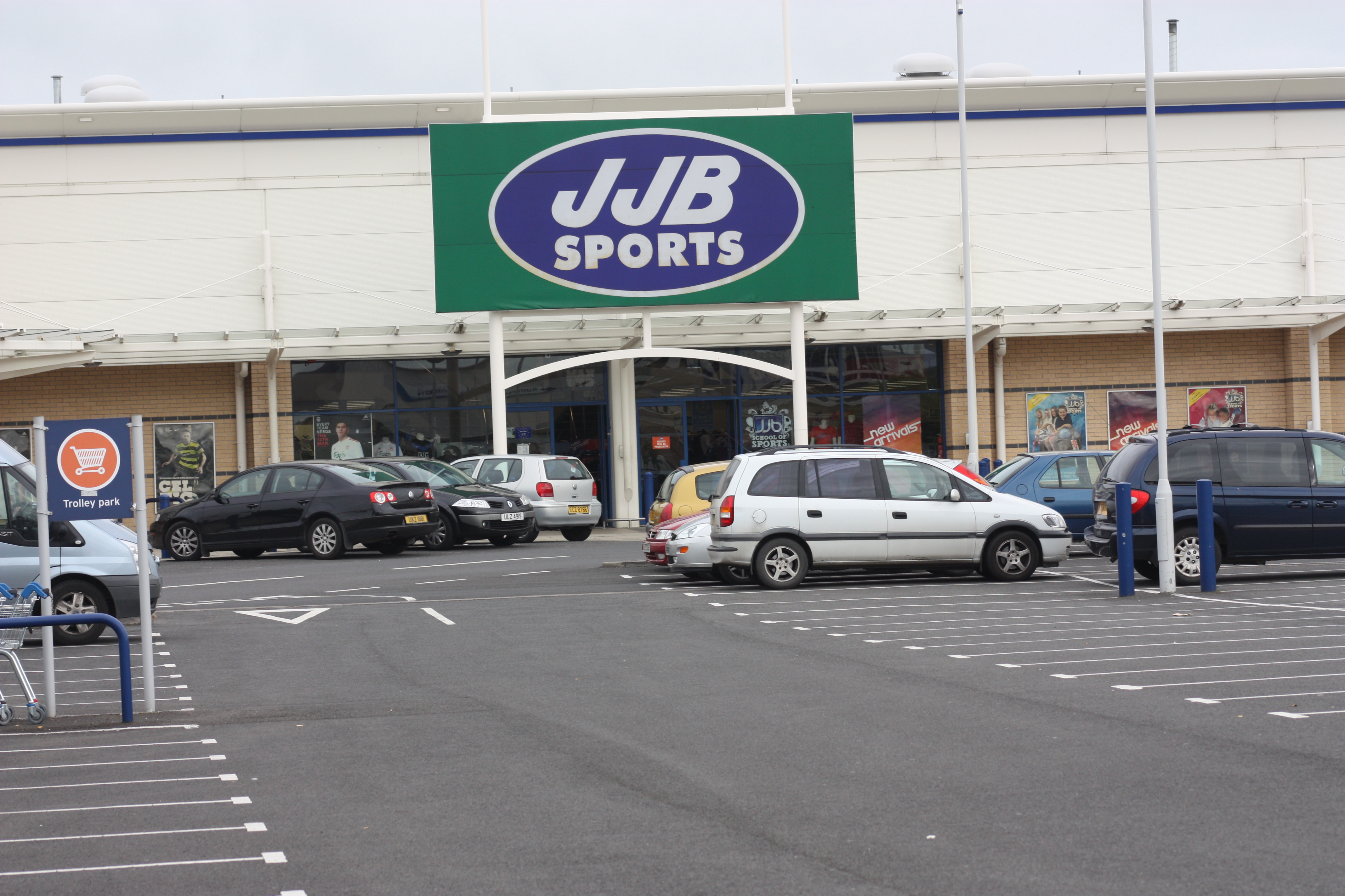 JJB Sports store, Rushmere Shopping Centre, Central Way, Craigavon, County Armagh, Northern Ireland, August 2009